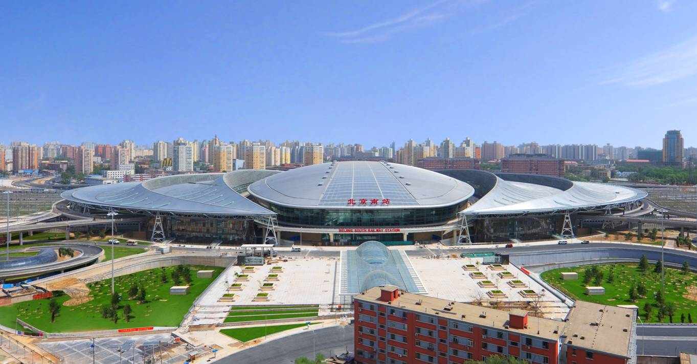 Beijing South Railway Station